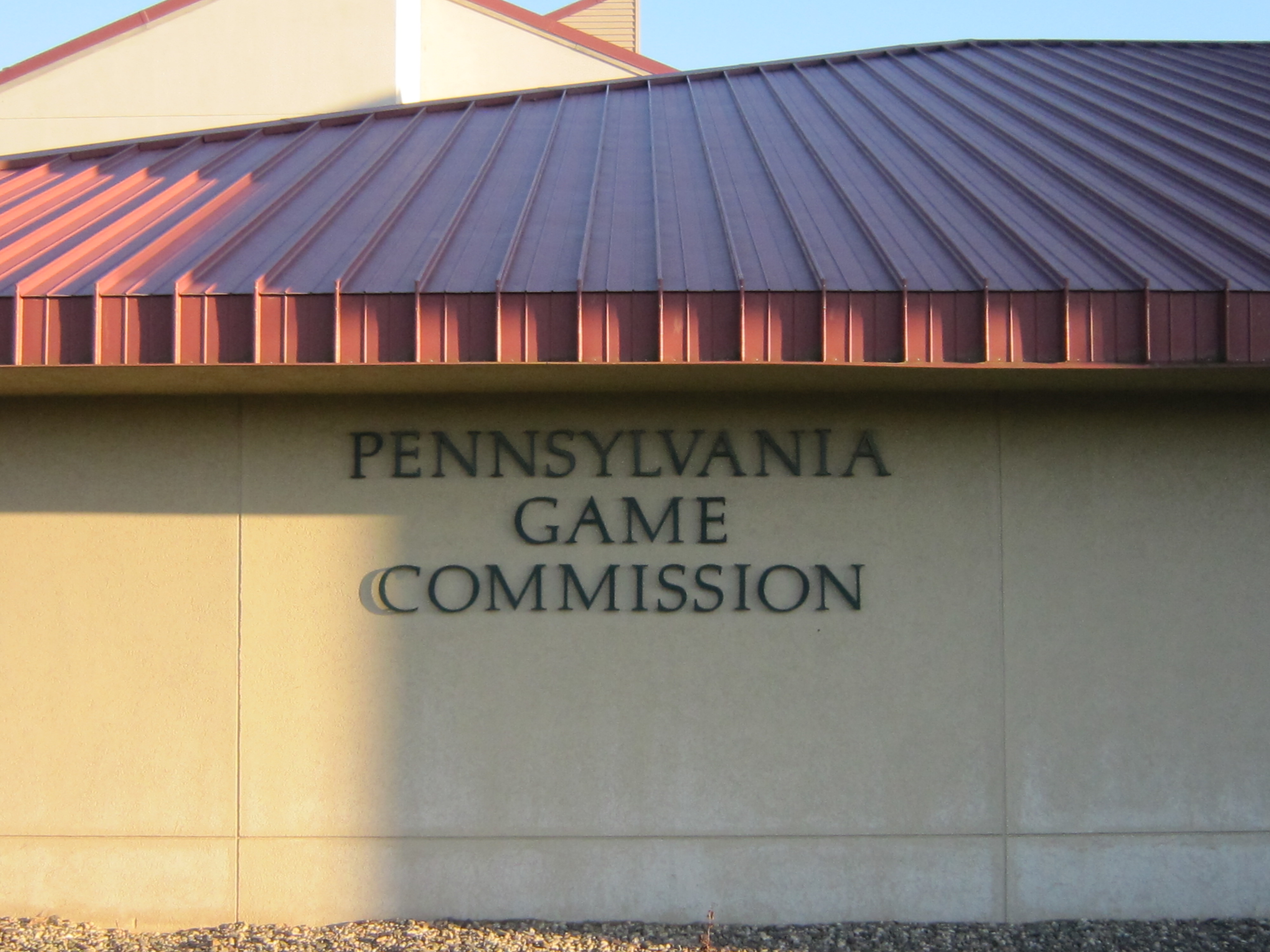 Game Commission Building